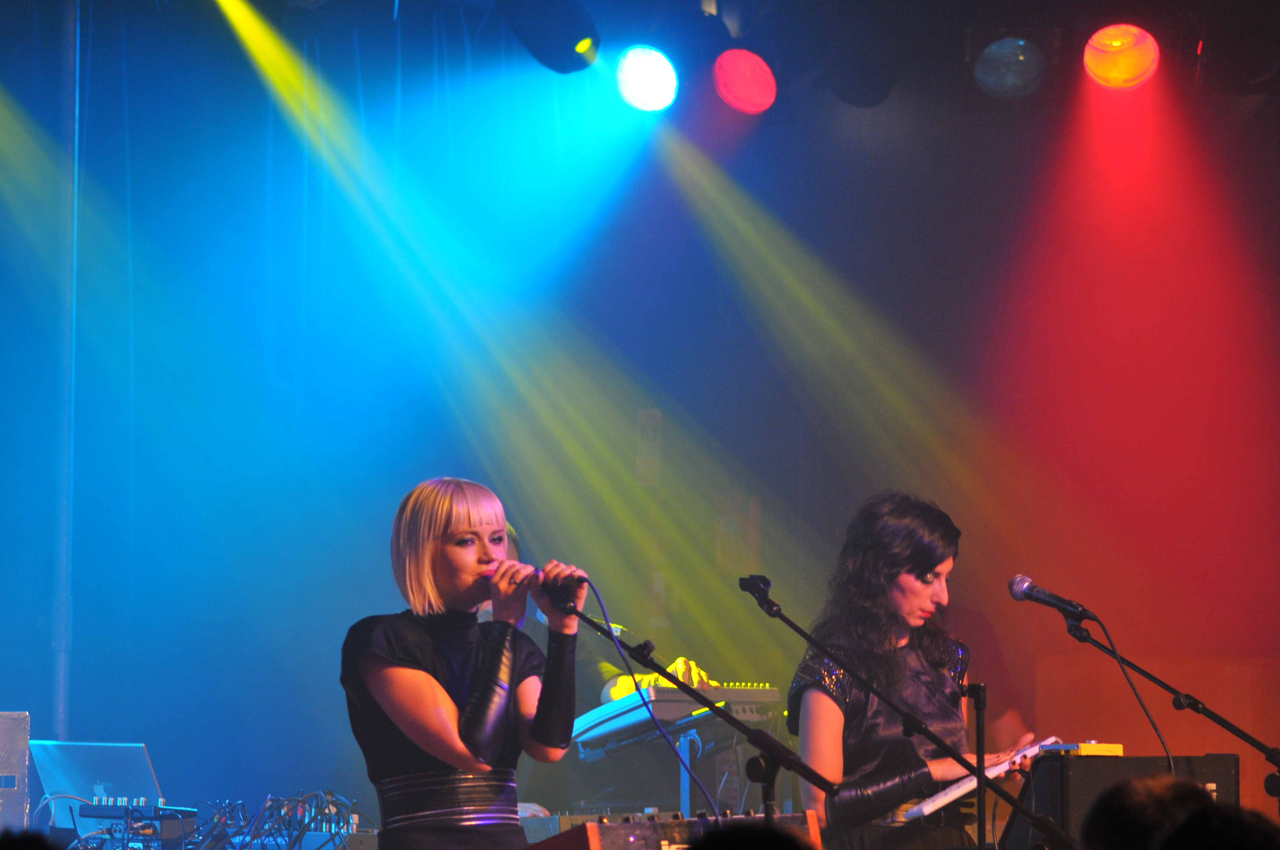 The Greek synthpop duo Marsheaux performing at a 2009 concert